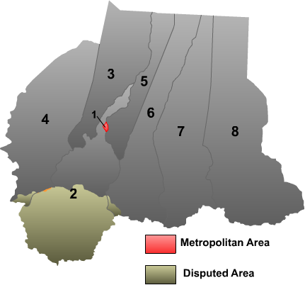 Map of Hotan prefecture in Xinjiang province